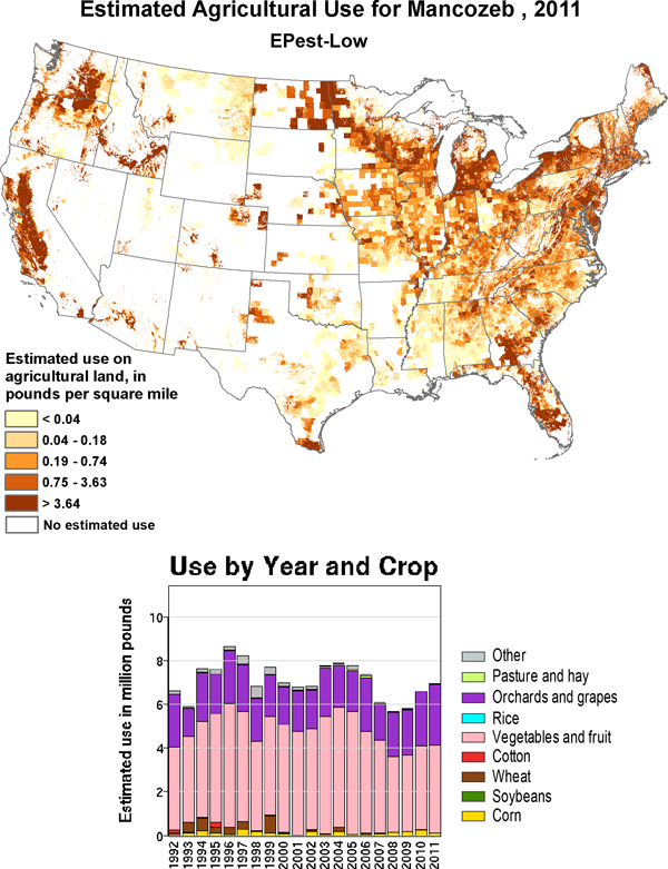 Mancozeb map of use, USA, 2011 (estimated)